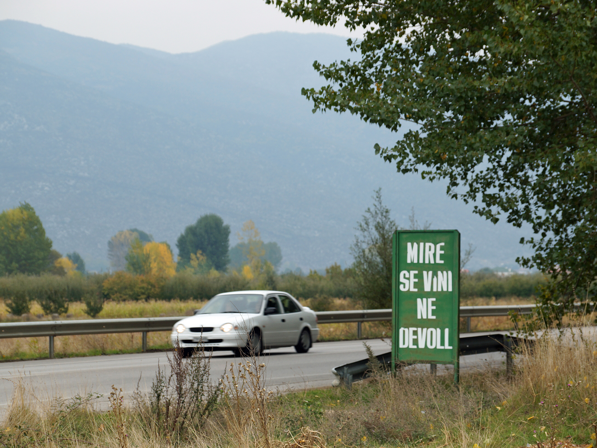 Sign at the boundary of Devoll and Korça districts